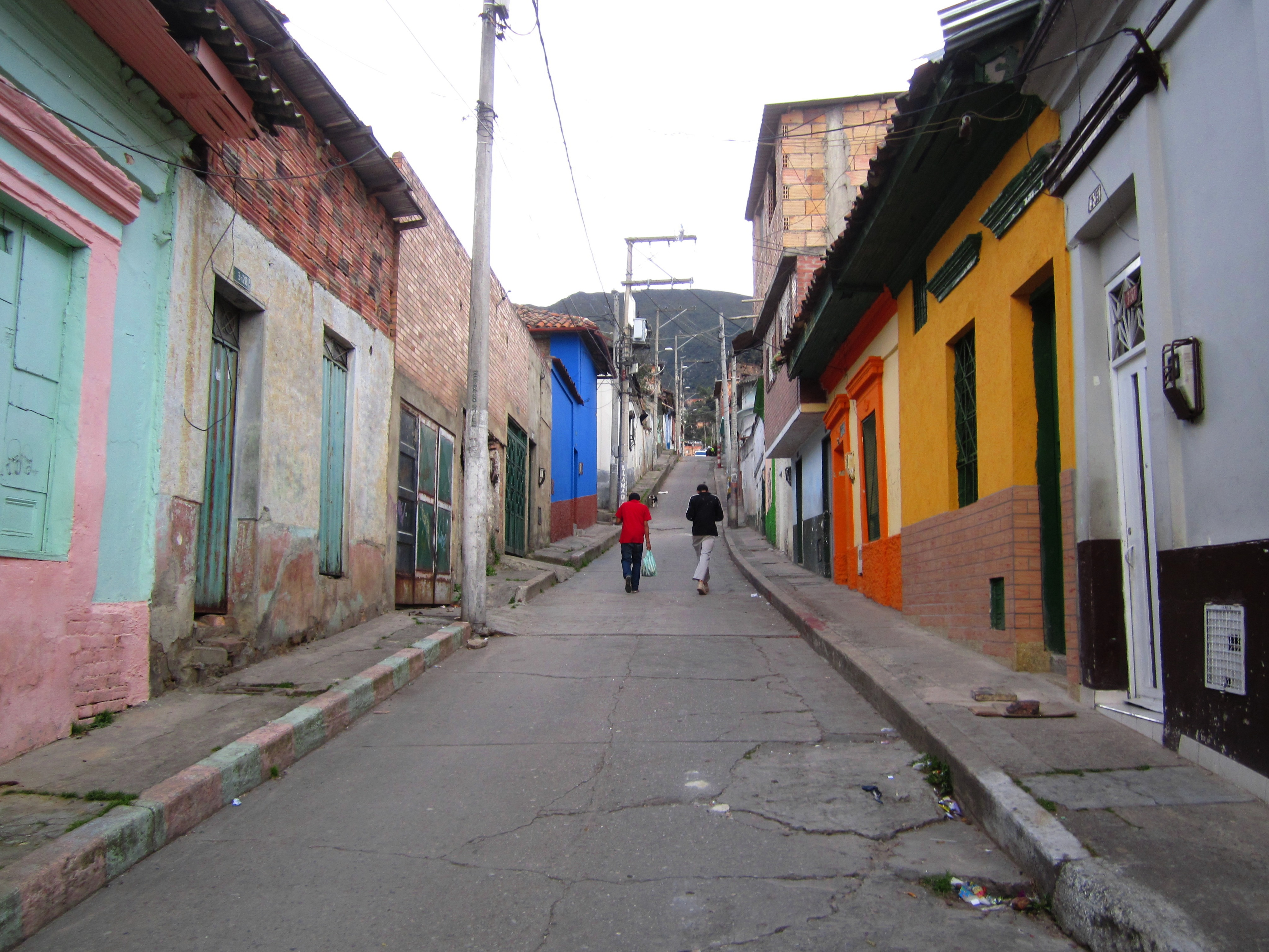 Bogotá